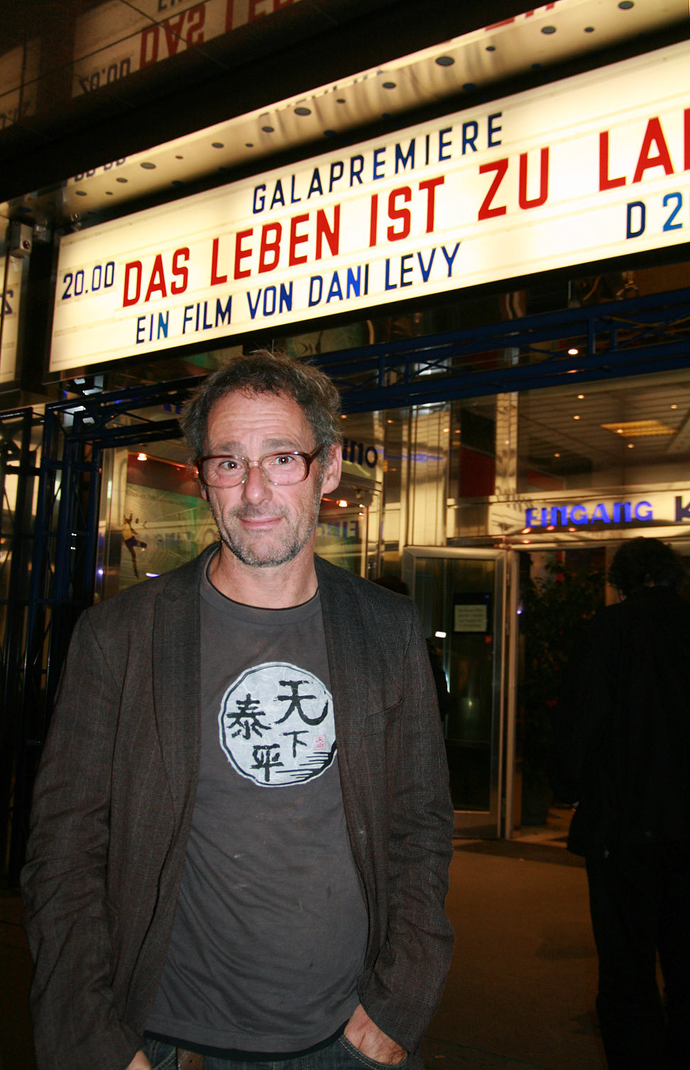 Dani Levy at the Austrian premiere of his movie Das Leben ist zu lang (Life is to long) at the Gartenbaukino in Vienna.